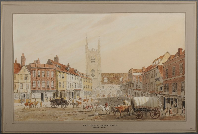 Market Place and St Laurence's Church, Reading, Watercolour by an unknown artist - about 1795